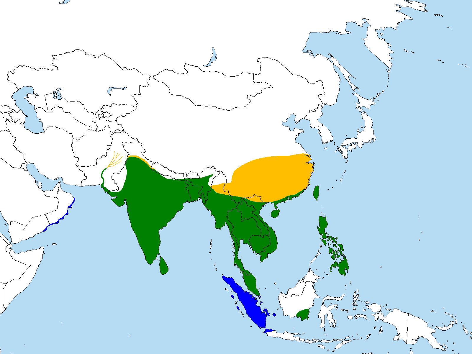 Distribution map of Hydrophasianus chirurgus by L. Shyamal